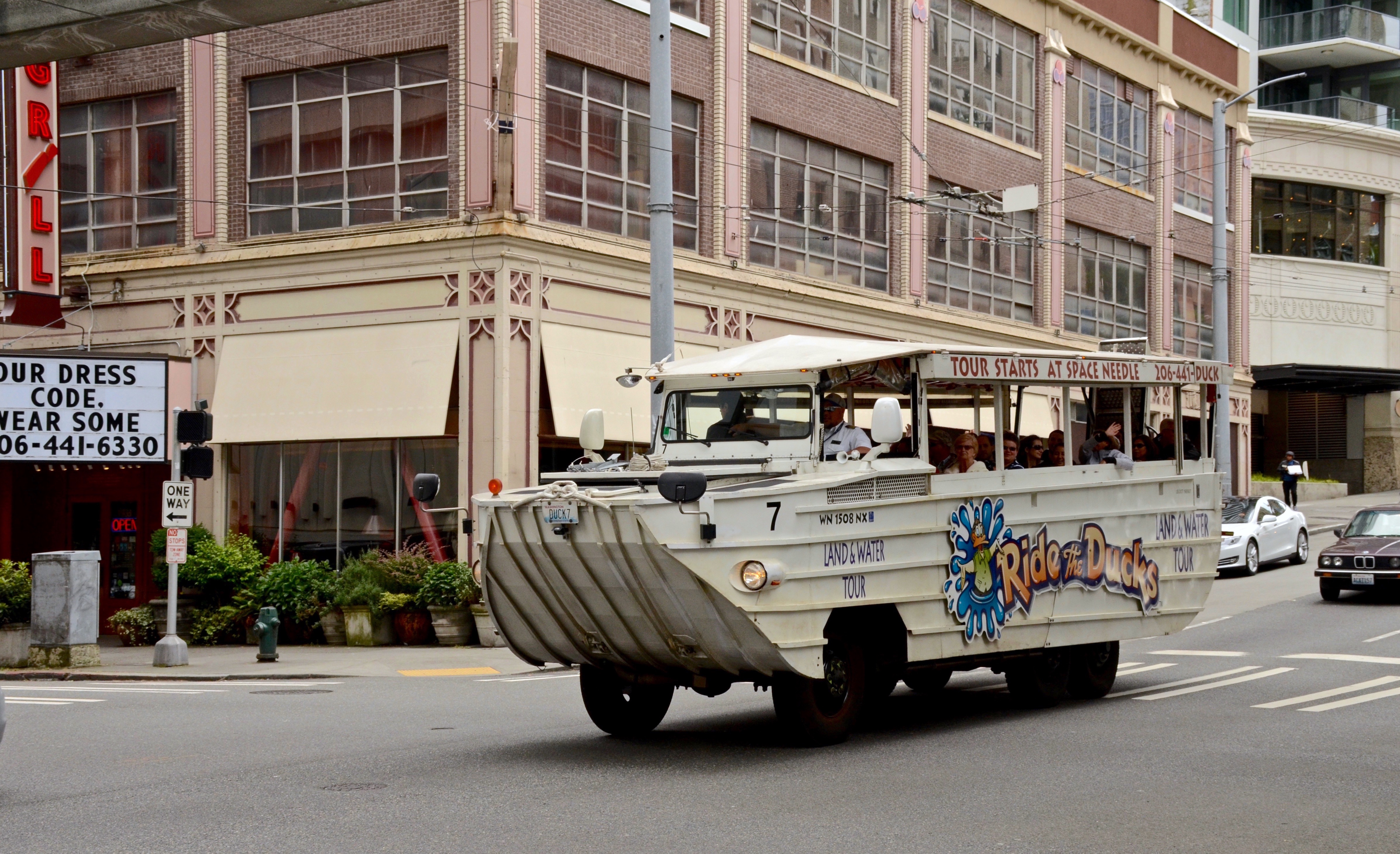 A "Ride the Ducks" amphibious tour vehicle in downtown Seattle, eastbound on Virginia Street, crossing 5th Avenue. This is duck boat No. 7.